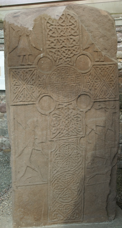 Eassie Sculptured Stone, Eassie, Angus, Scotland